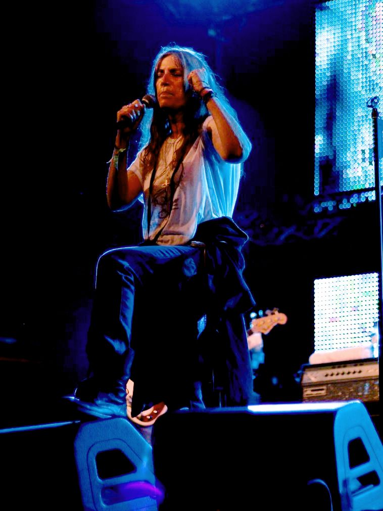 Patti Smith performing at Primavera Sound festival, Parc del Fòrum, Barcelona, Spain.